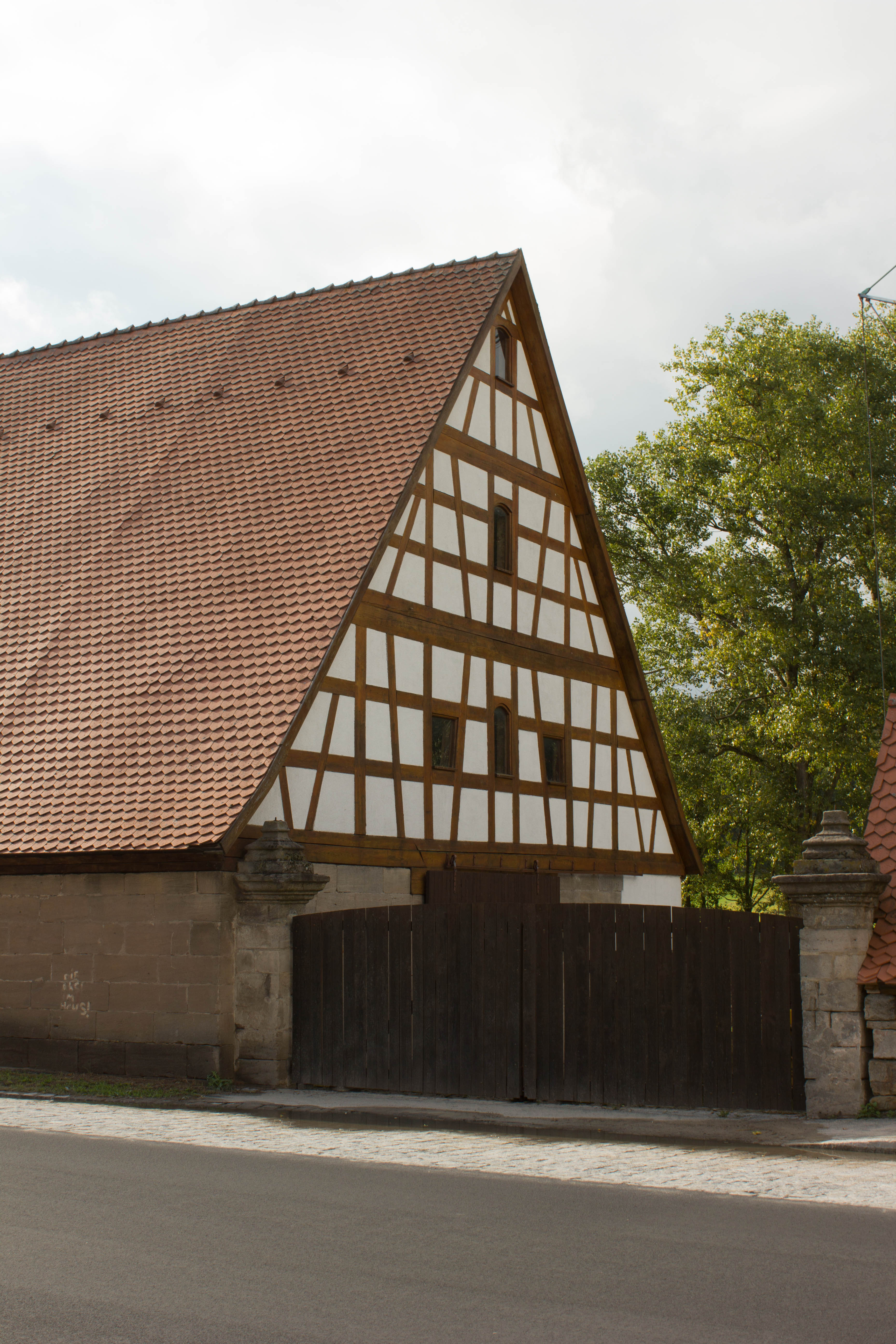 Langenzenn Heinersdorf, Äußere Windsheimer Strasse 50